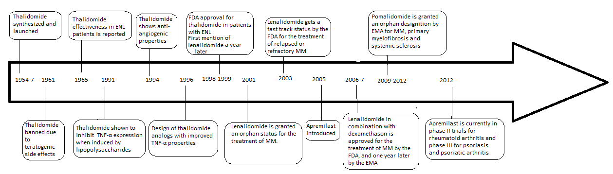 Repaired some of the wrong dates compared to the older pic